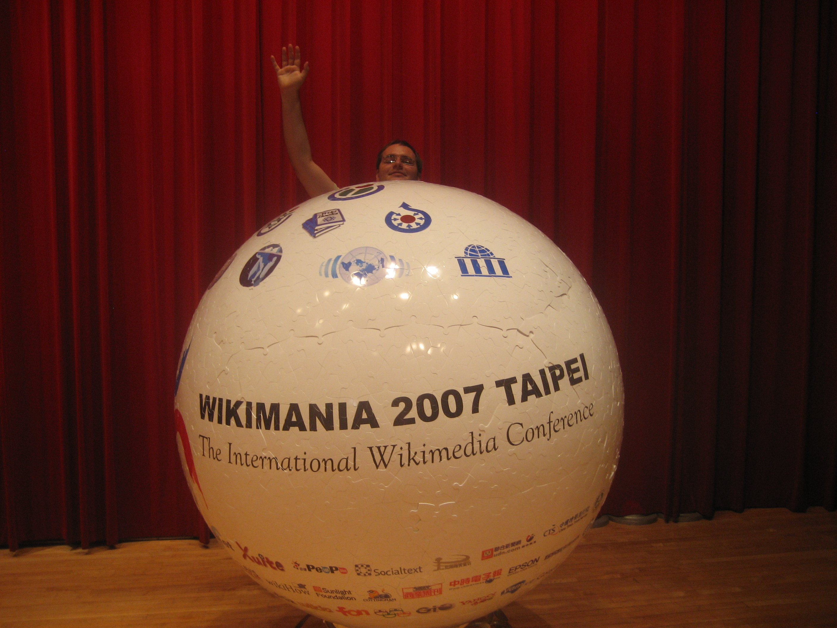 Me and the big ball